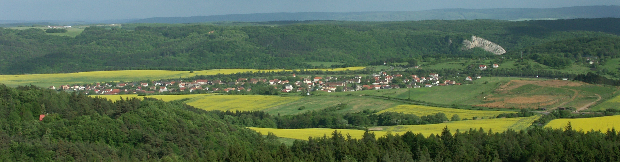 The view at Vráž from the view-tower above Lhotka.